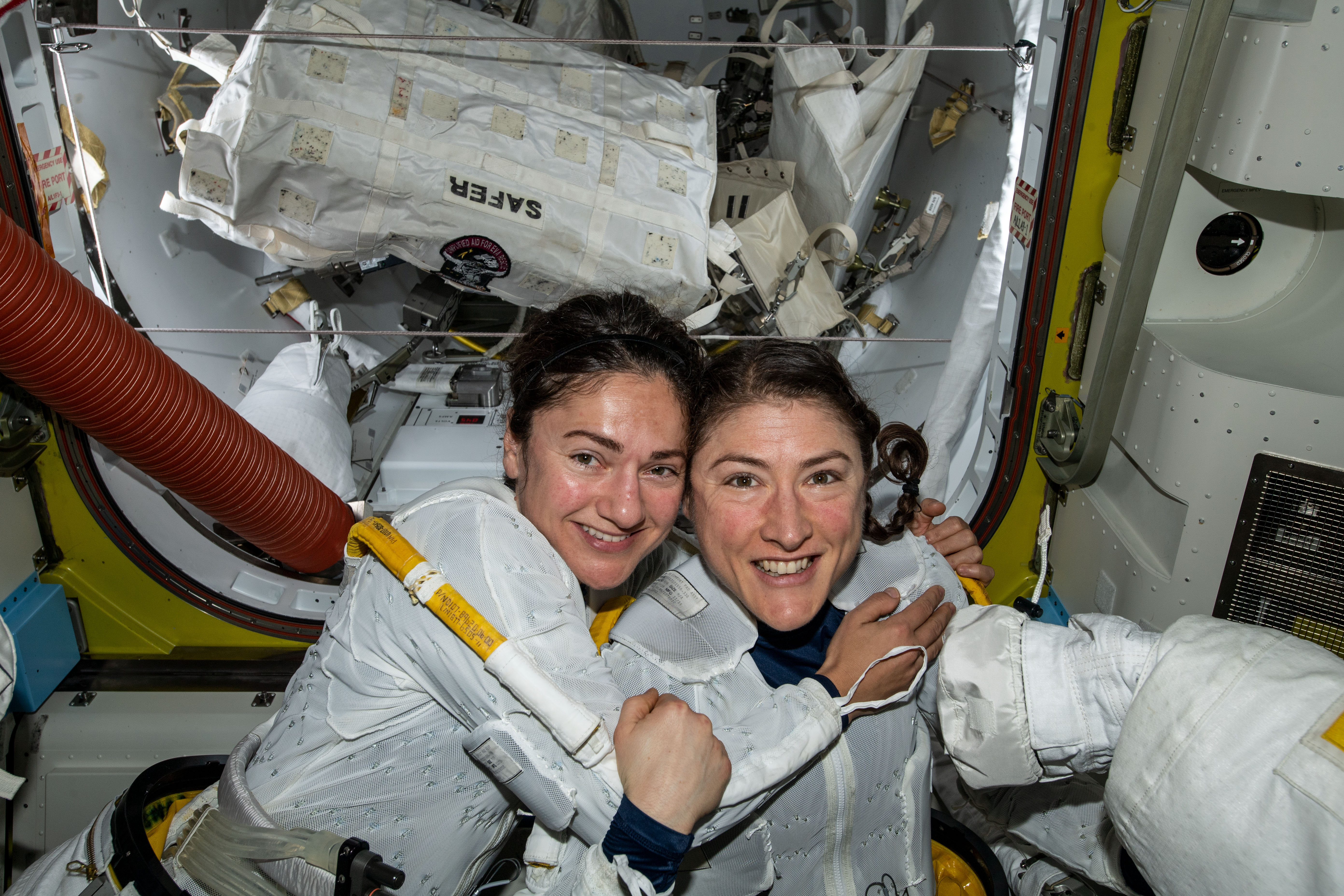 NASA astronauts Jessica Meir (left) and Christina Koch (right) to prepare to leave the hatch of the International Space Station and begin the historic first-ever all-female spacewalk. The astronauts replaced a faulty battery charge discharge unit (BCDU) that failed to activate following the Oct. 11 installation of new lithium ion batteries on the space station's exterior structure. The BCDUs regulate the amount of charge put into the batteries that collect energy from the station's solar arrays to power station systems during periods when the station orbits during nighttime passes around Earth. Though the BCDU failure has not impacted station operations or crew safety, it does prevent the new batteries from providing increased station power.